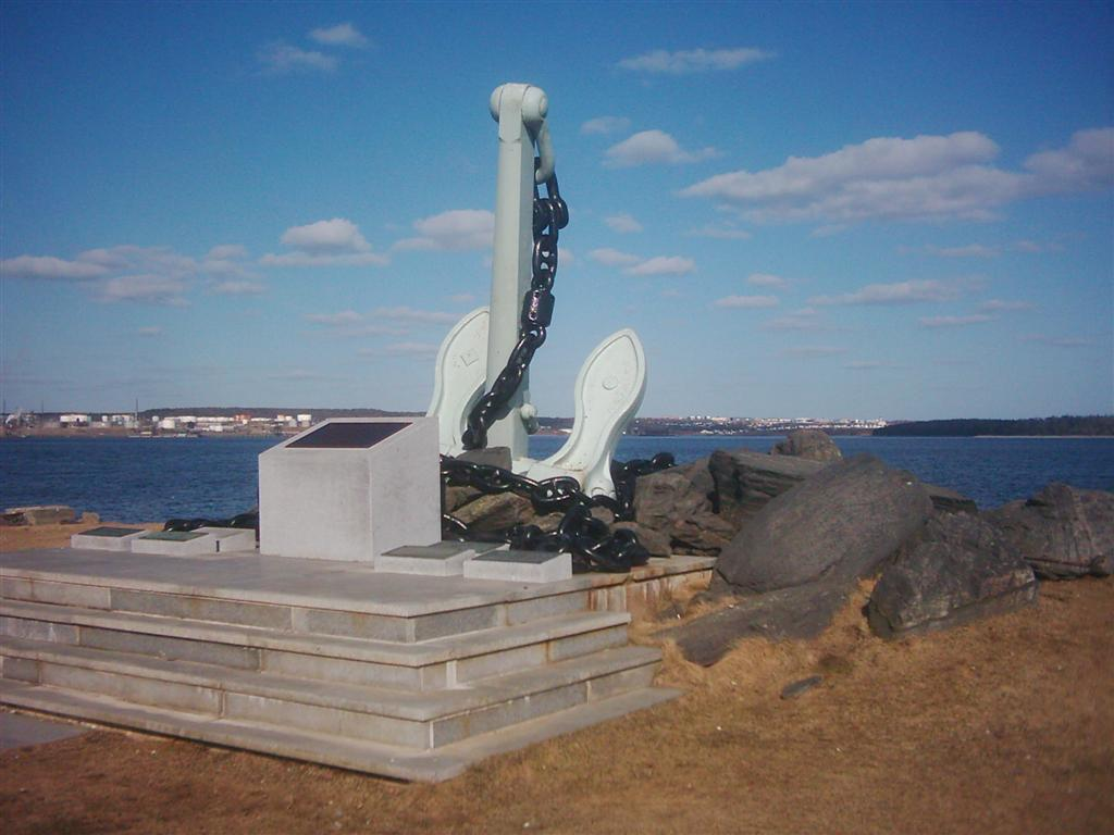 Dédié aux hommes et aux femmes morts au service de la marine canadienne en temps de paix. Cette ancre provient du NCSM Bonaventure, porte-avions de la marine royale du Canada 17 janvier 1957 - 1 juillet 1970 Dedicated to the men and women who died while serving with the canadian navy during peacetime. This anchor came from HMCS Bonaventure, an aircraft carrier of the Royal Canadian Navy.